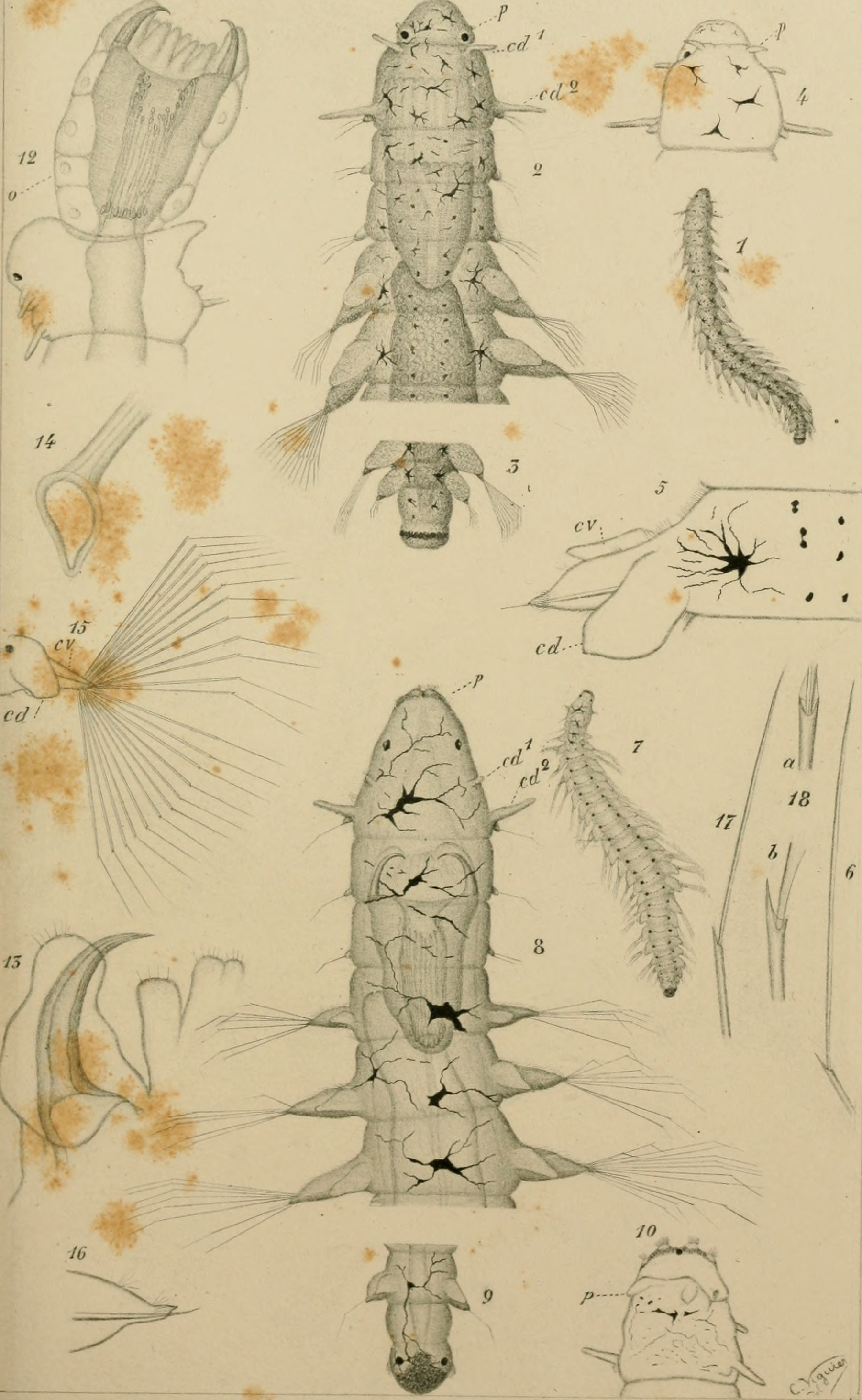 Title: Archives de zoologie expérimentale et générale Year: 1886 (1880s) Authors: Centre national de la recherche scientifique (France); Lacaze-Duthiers, Henri de, 1821-1901 Subjects: Zoology; Zoology Publisher: Paris, Centre national de la recherche scientifique (etc. ) Text Appearing Before Image: Arcîi de ZooIExp'^,^ et GeIl^^ 2^SèrieVol,IV, PIXXÏÏI, Text Appearing After Image: lOSPILUS PHALACROIDES f C Vi^ ) PHALACROPHORUS PICTUS f C-reeff )